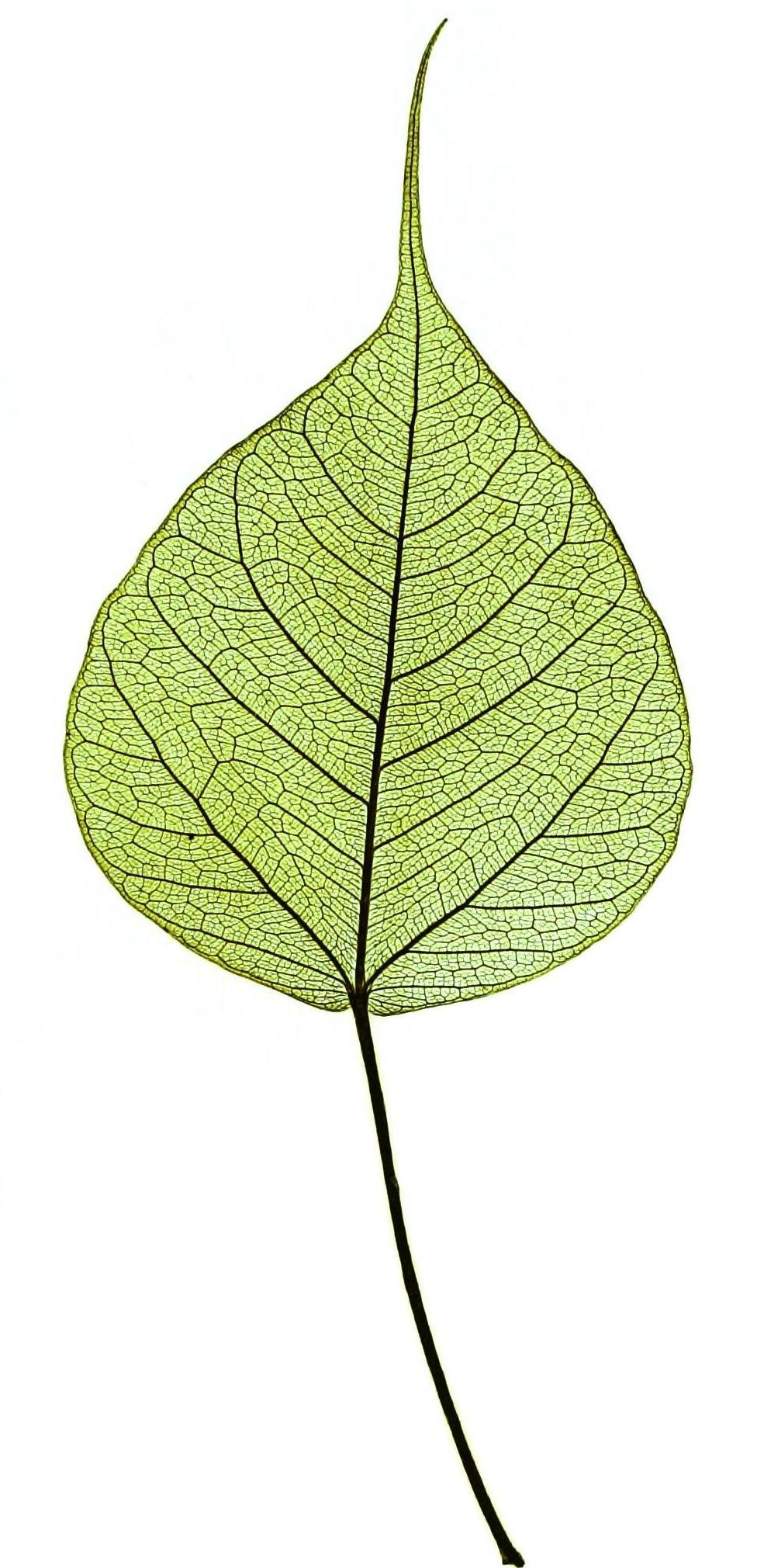 Nature printed leaves of 6 tree species in Moraceae Fig. 4. Ficus superstitiosa Link. = Ficus religiosa L. Title: Denkschriften der Kaiserlichen Akademie der Wissenschaften / Mathematisch-Naturwissenschaftliche Classe Year: 1858 (1850s) Authors: Kaiserl. Akademie der Wissenschaften in Wien. Mathematisch-Naturwissenschaftliche Klasse Subjects: Mathematics; Science Publisher: Wien : Aus der Kaiserlich-Königlichen Hof- und Staatsdruckerei Text Appearing Before Image: C. v. Ettingshausen. Die Blattskelete der Apetalen. Taf. XIV. Text Appearing After Image: Fig. 1. Morus pendulina Endl. Fig. 4. Ficus superstitiosa Link. Fig. 2. Broussonetia papyrifera Vent. Fig. 5 u. 6. Ficus nitida Thunb. Fig. 3. Ficus populiformis H. B. S. Fig. 7. Ficus ciliolosa Link. Denkschriften der mathem.-naturw. Cl. XV. Bd. 1858. Naturselbstdruck aus der k. k. Hof- und Staatsdruckerei